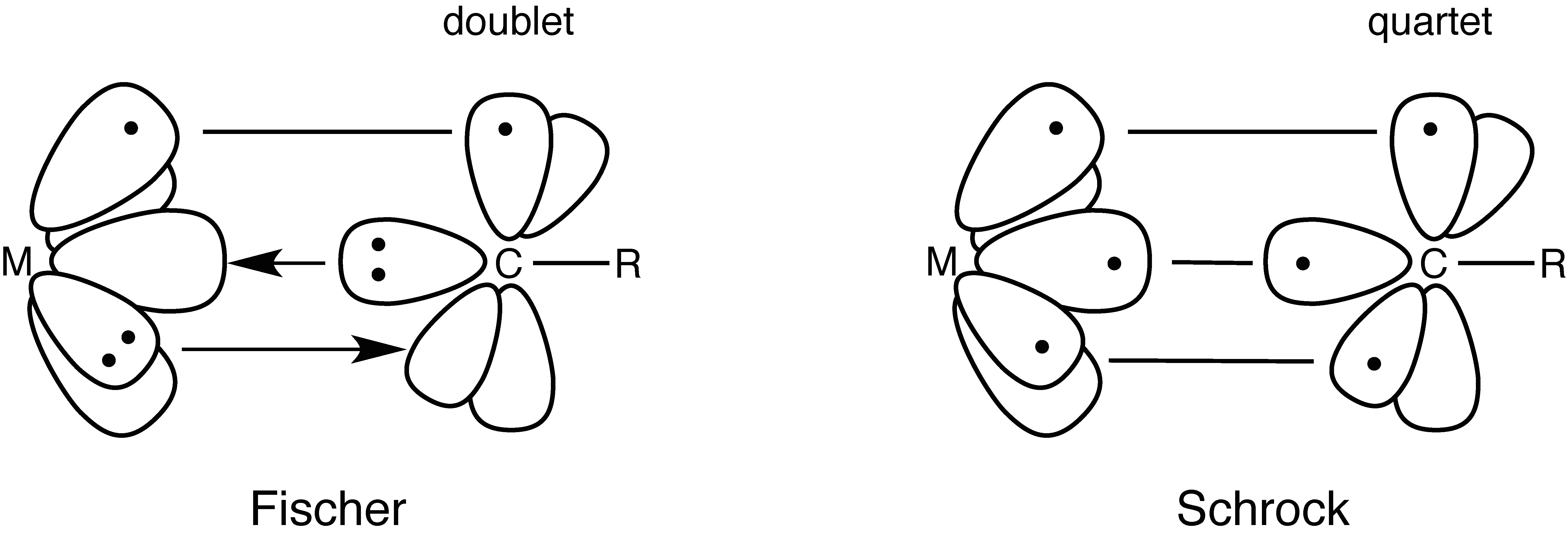 Electronic interaction scheme in Fischer and Schrock carbynes